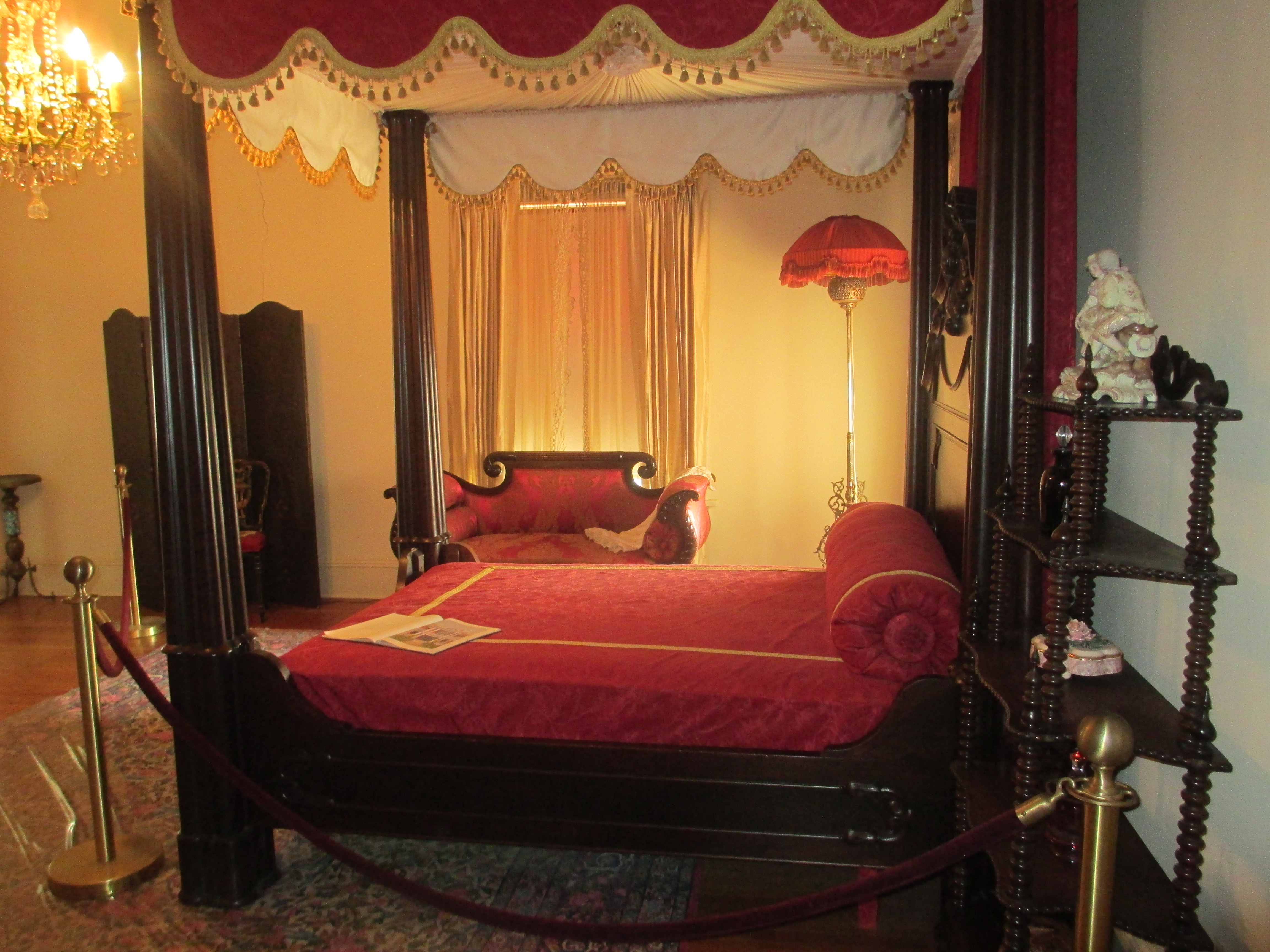 I took photo with Canon camera of bride's bedroom at The Kell House in Wichita Falls, TX.